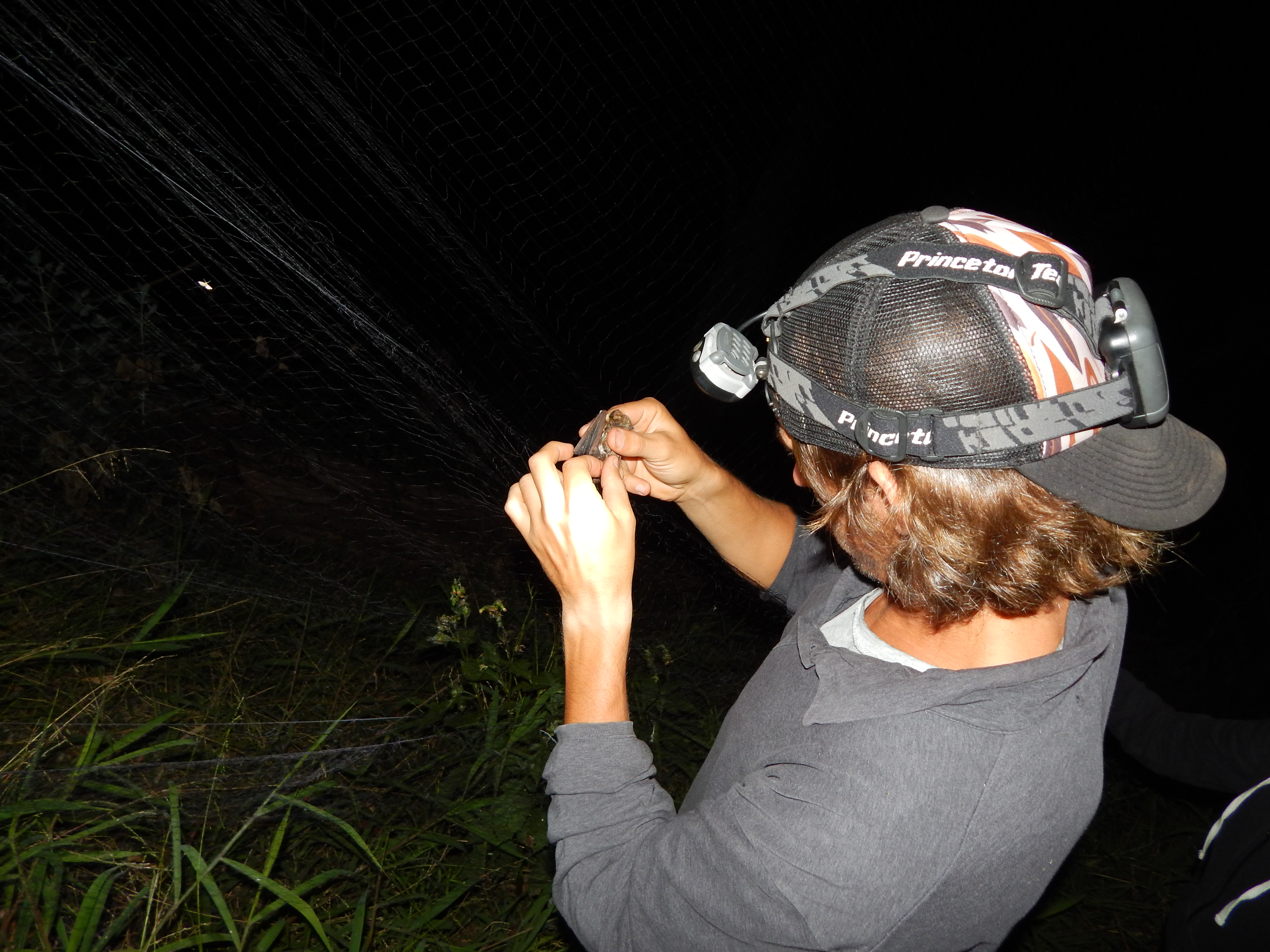 Eucalyptus sp. (Eucalyptus) Habit with Chris and Hawaiian Hoary bat in net at Hawea Pl Olinda, Maui, Hawaii. June 25, 2014 #140625-0793 Image Use Policy